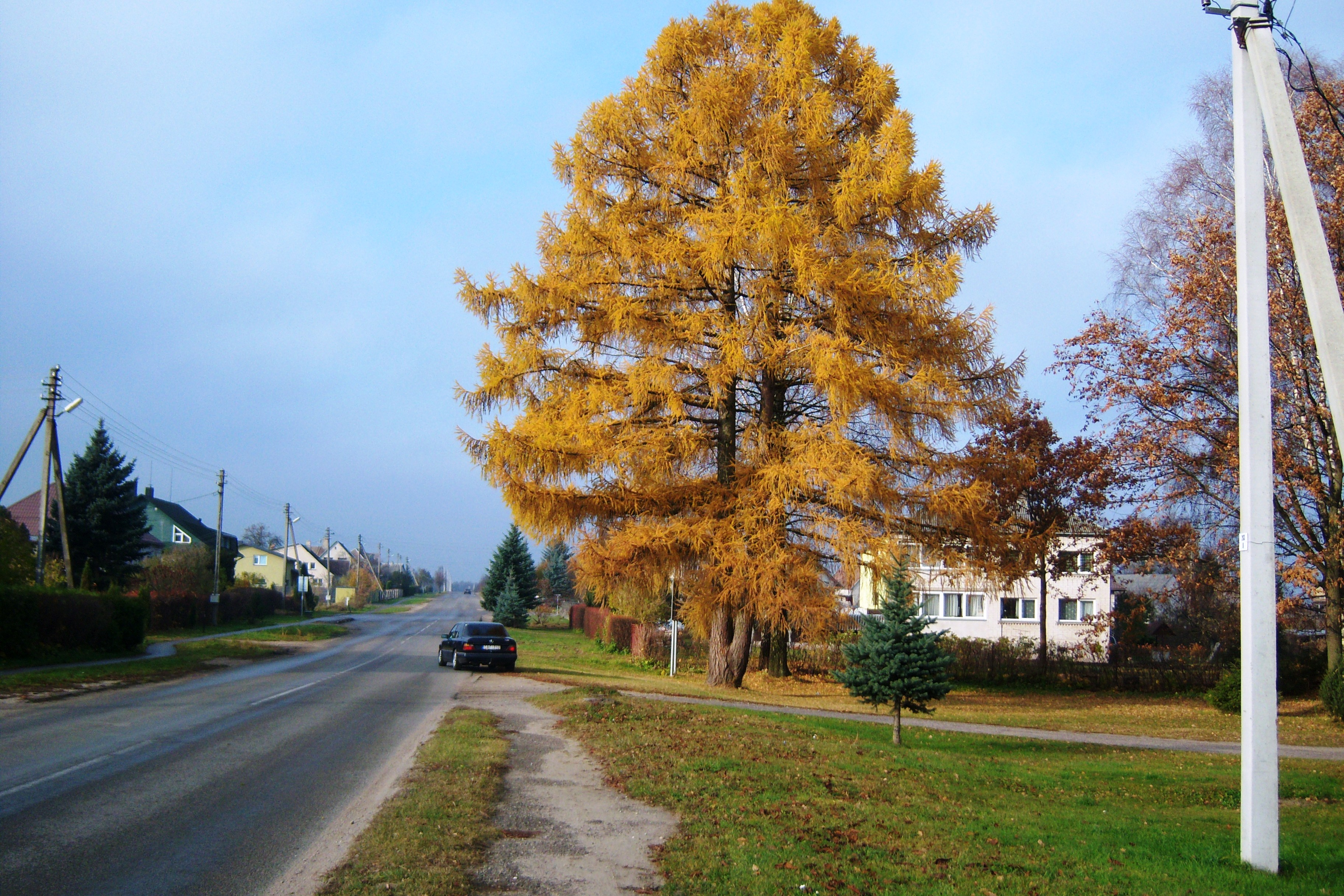 Šlienava, center, Kaunas District. Lithuania